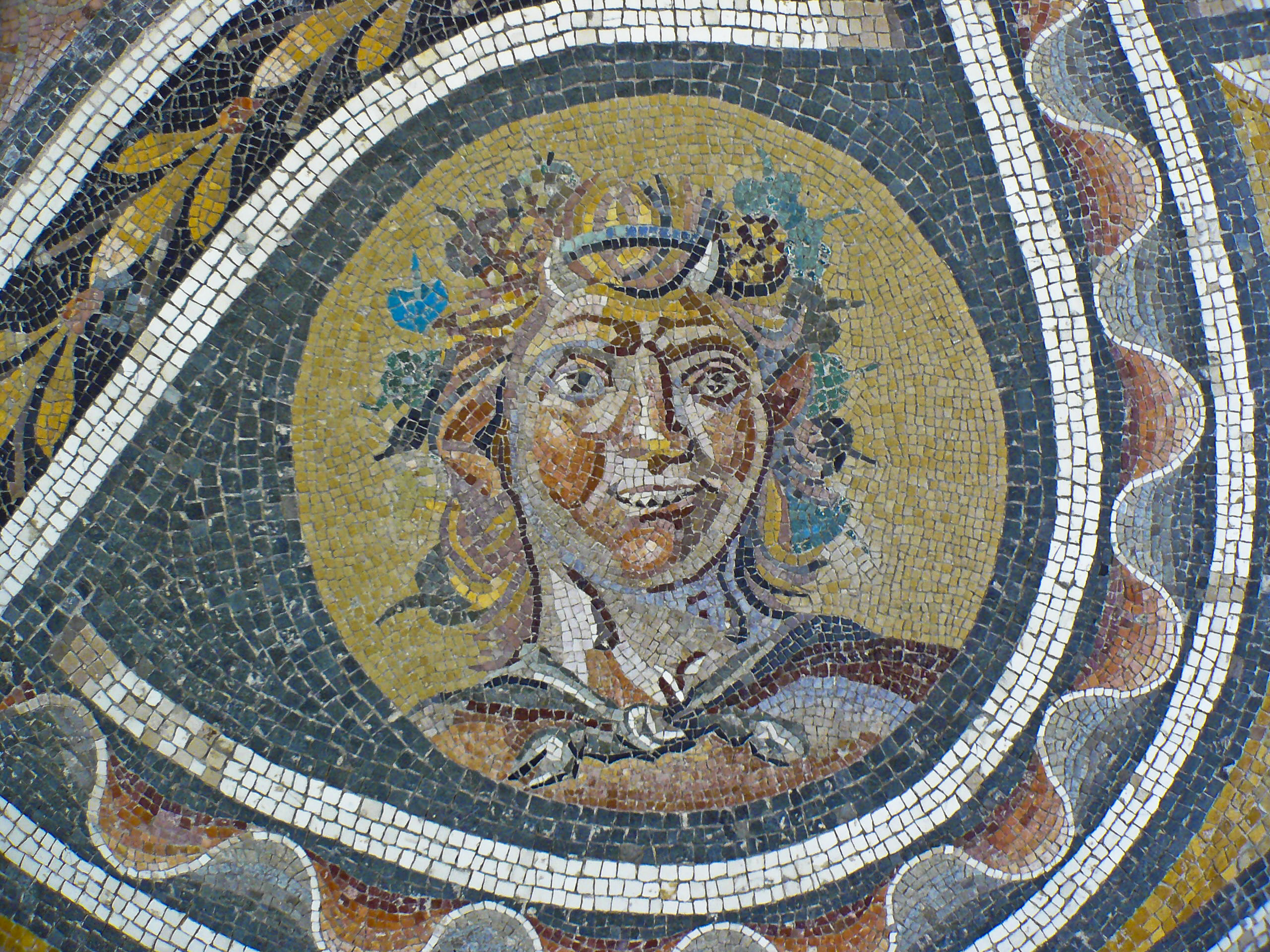 Pavement mosaic with the head of a satyr. Roman artwork, Antonine period, 138–192 CE.